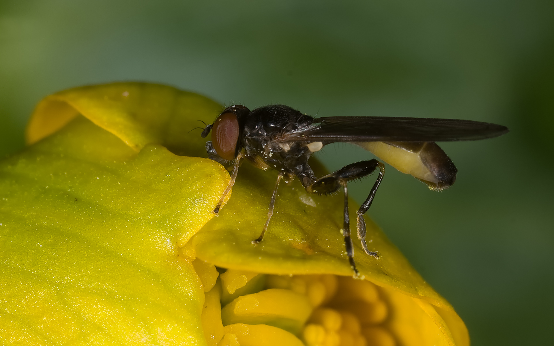 A rare Sphegina montana